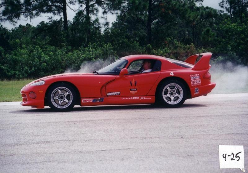 Dmitri Nabokov in a Dodge Viper GTSR at the Justin Bell driving school in Palm Beach Gardens, Florida.